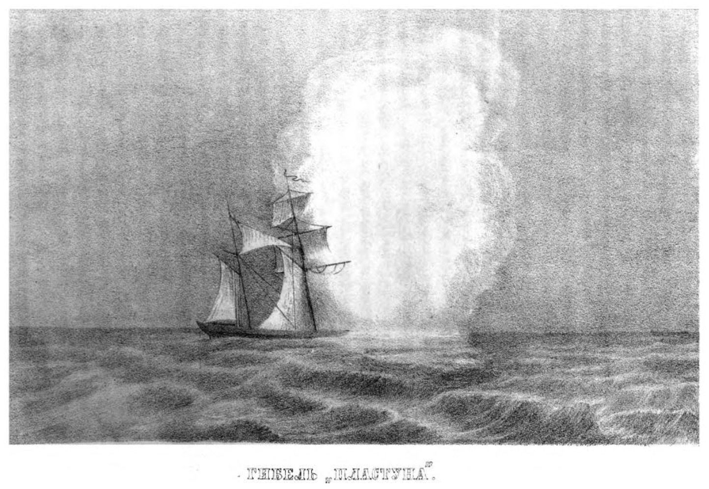 "The crash of the Plastun". Page 588 of Aleksei Vysheslavtsev's Book. Illustration from Aleksei Vysheslavtsev's Ocherki perom i karandashom, iz krugosvetnogo plavaniya (Sketches in Pen and Pencil from a Voyage around the World).